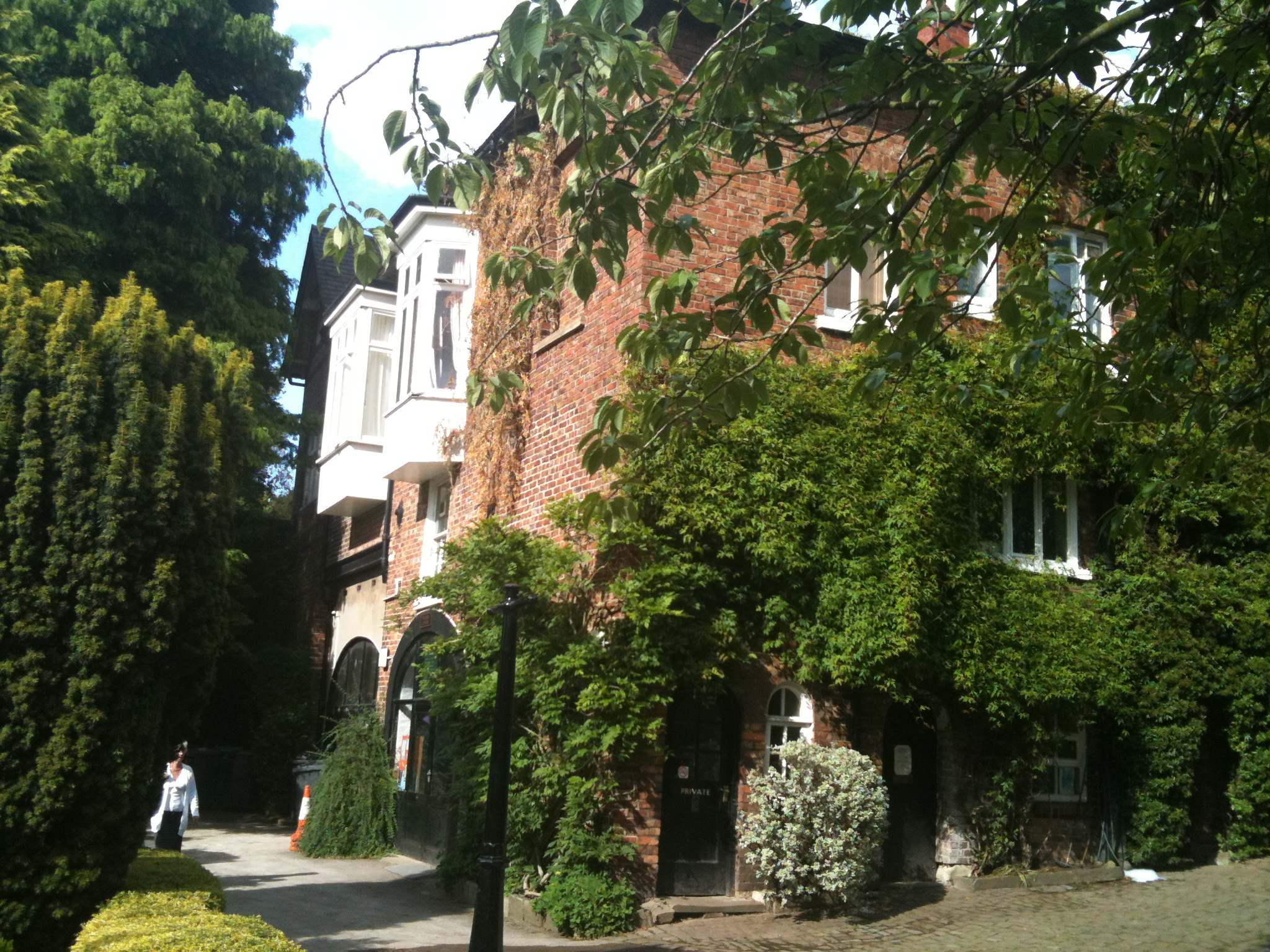 The Croft in Fletcher Moss Botanical Garden, Didsbury, Manchester, location of the foundation of the RSPB